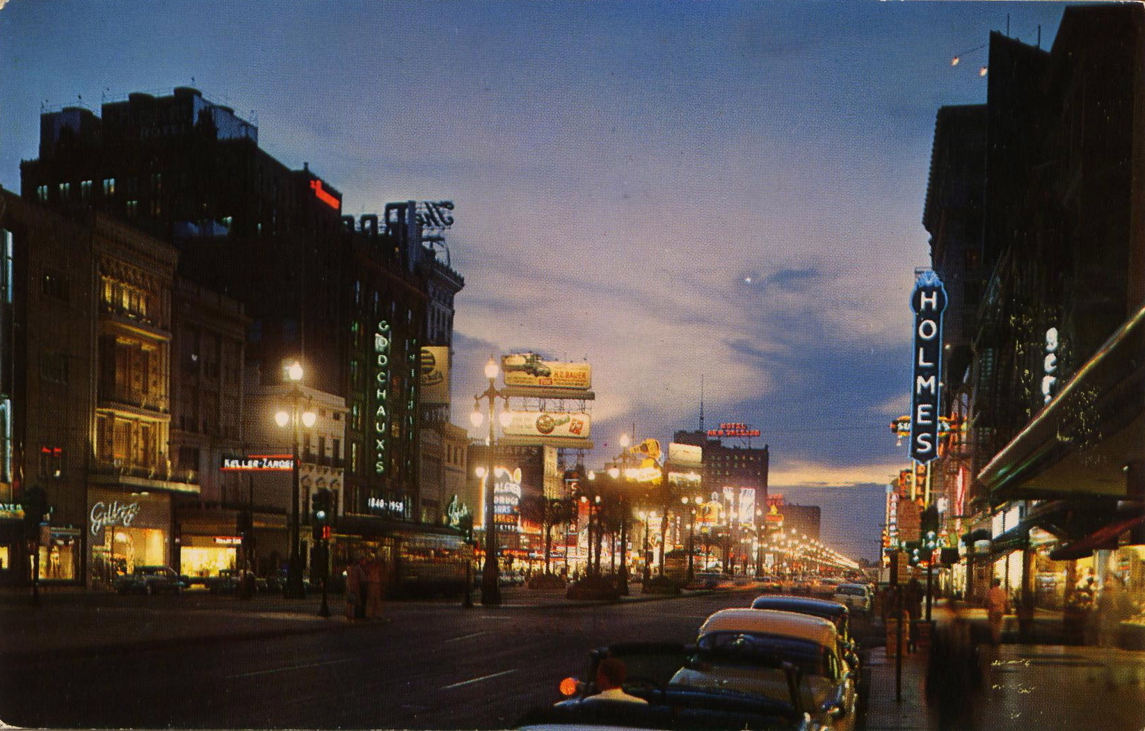 New Orleans: Postcard view of Canal Street, looking lakewards from 800 block. Signage for Godchaux's visible at left, D.H.Holmes' at right. Note Canal Streetcar running.